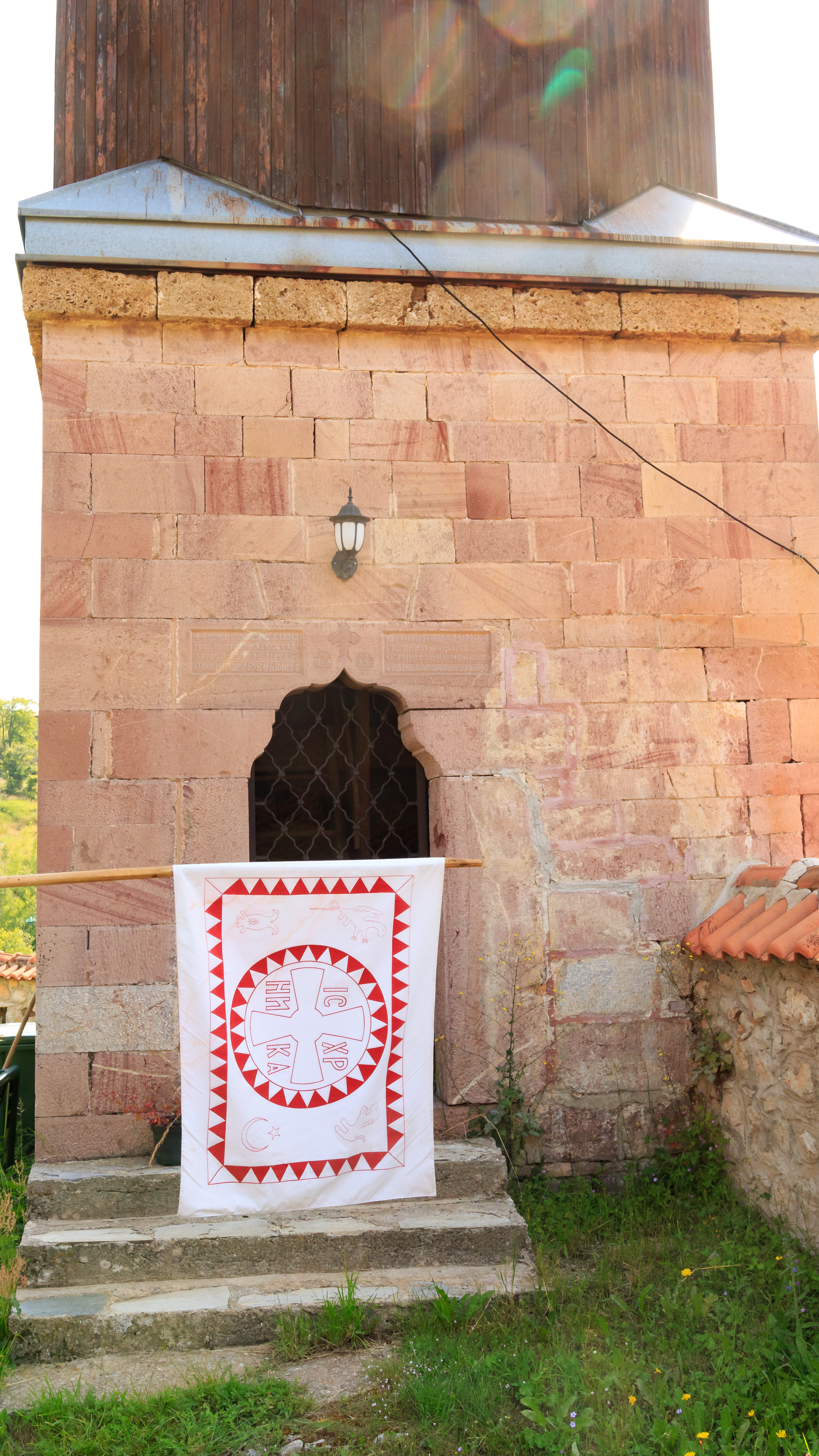 St. George's Church in Lazaropole